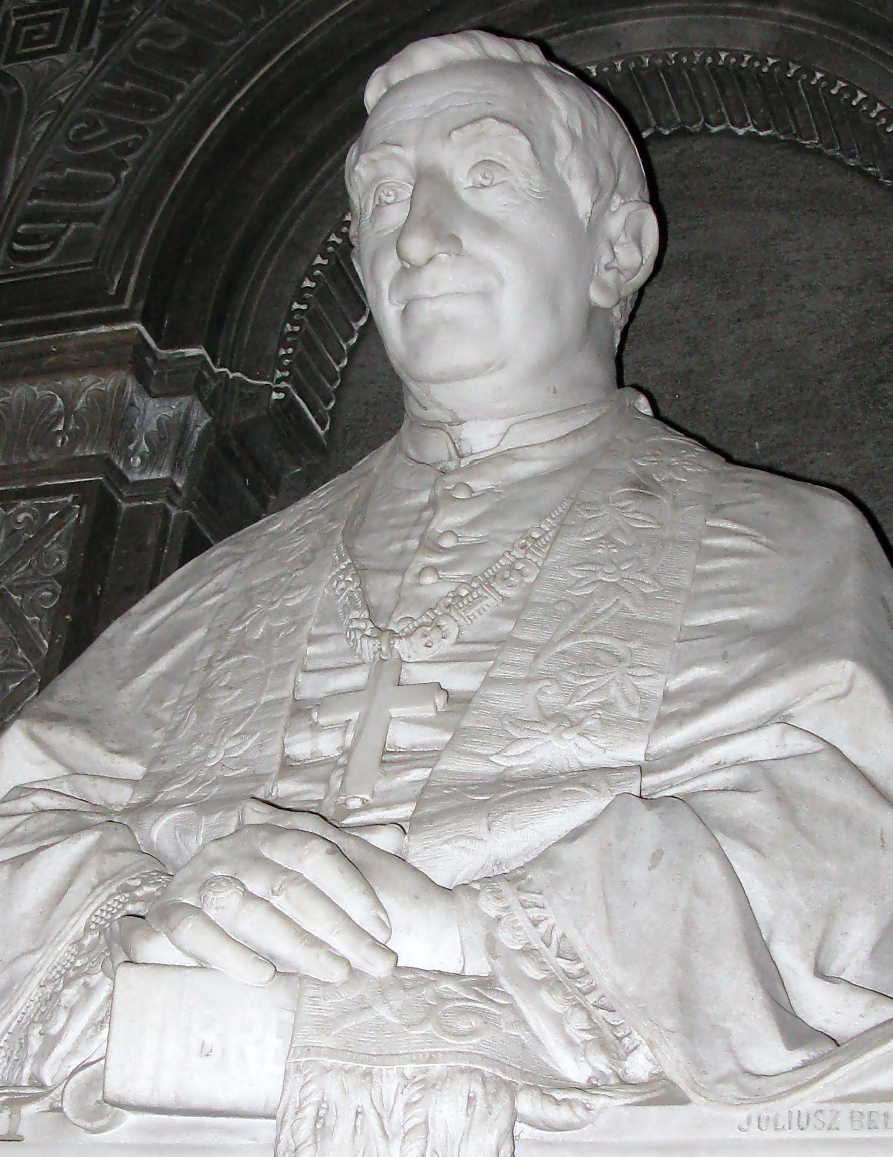 Bust of Izaak Mikołaj Isakowicz in Armenian Cathedral in Lviv